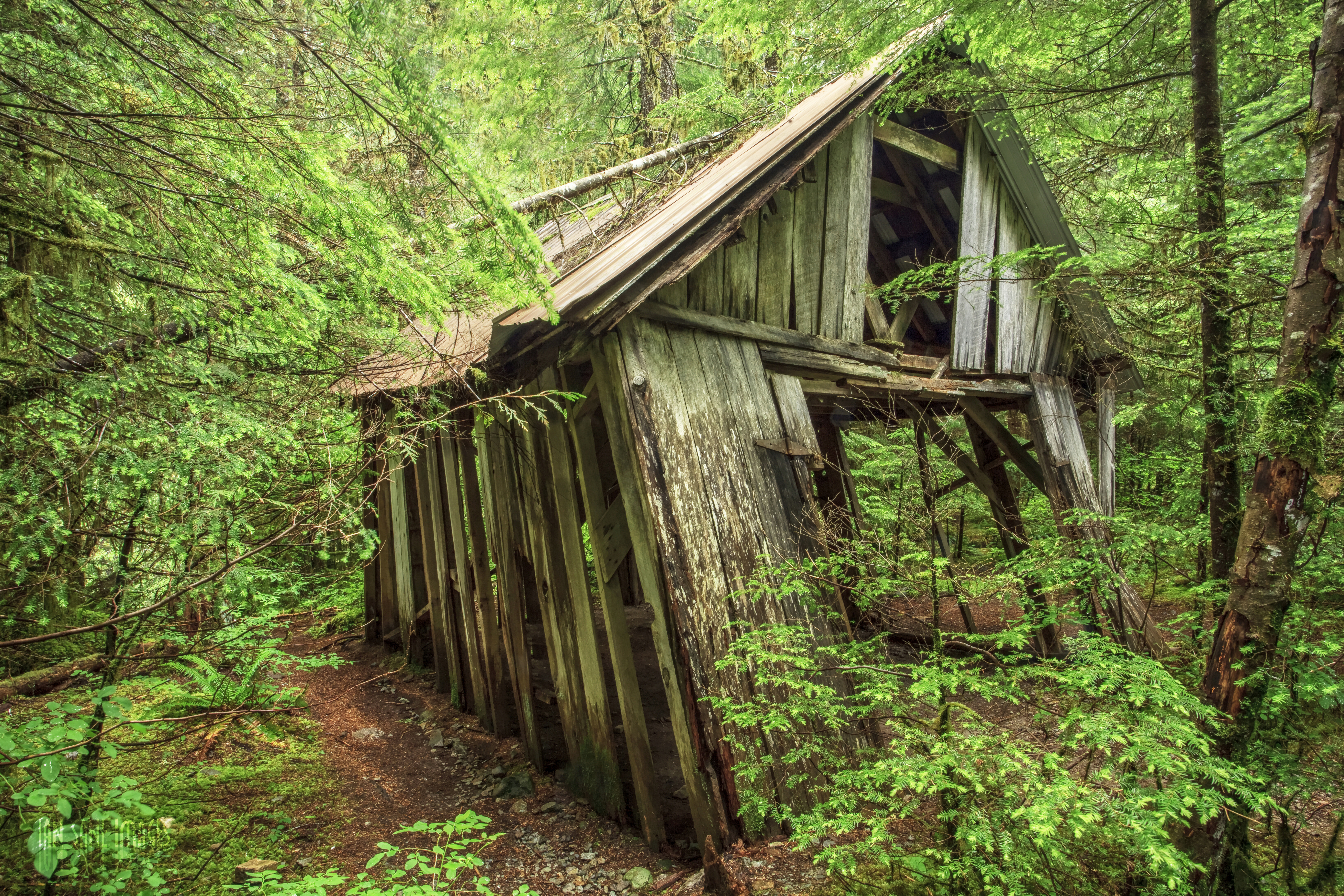 While hiking the Opal Creek Trail you will come across this beauty. It’s an old shed located at the abandoned Merten Mill. This area is used for camping now and is next to Sawmill Falls. Fluidr